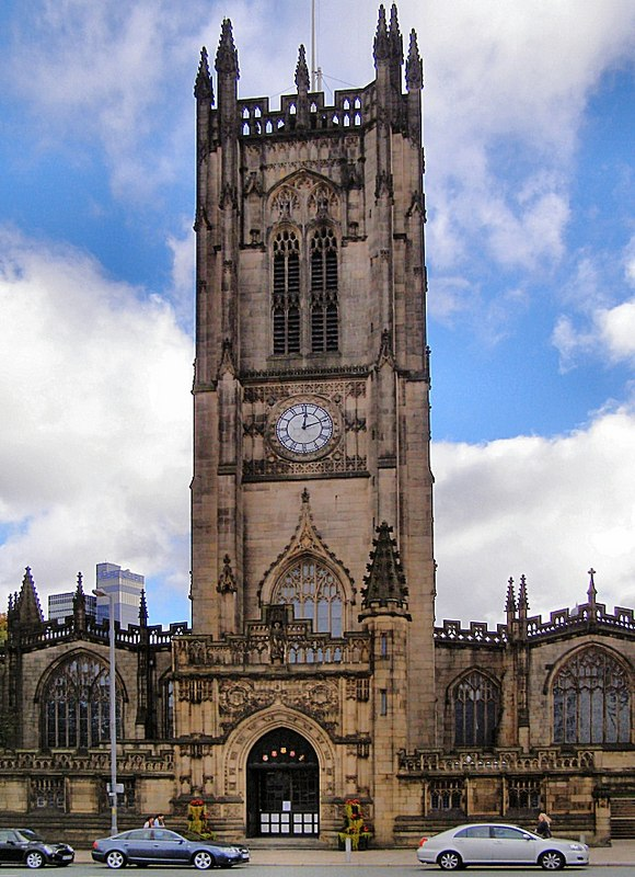 Manchester Cathedral in Manchester, Greater Manchester, England.